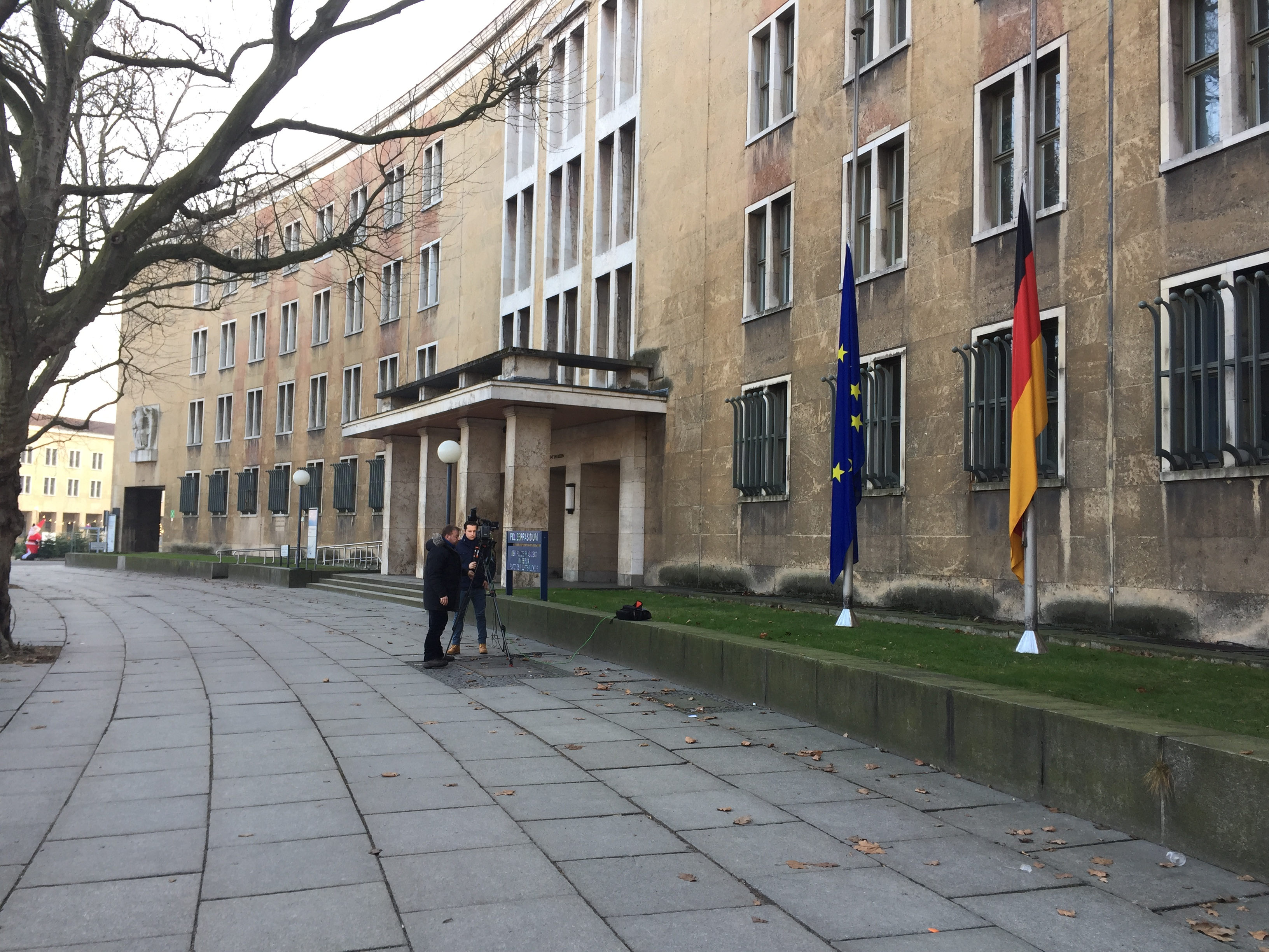 Police museum in Berlin